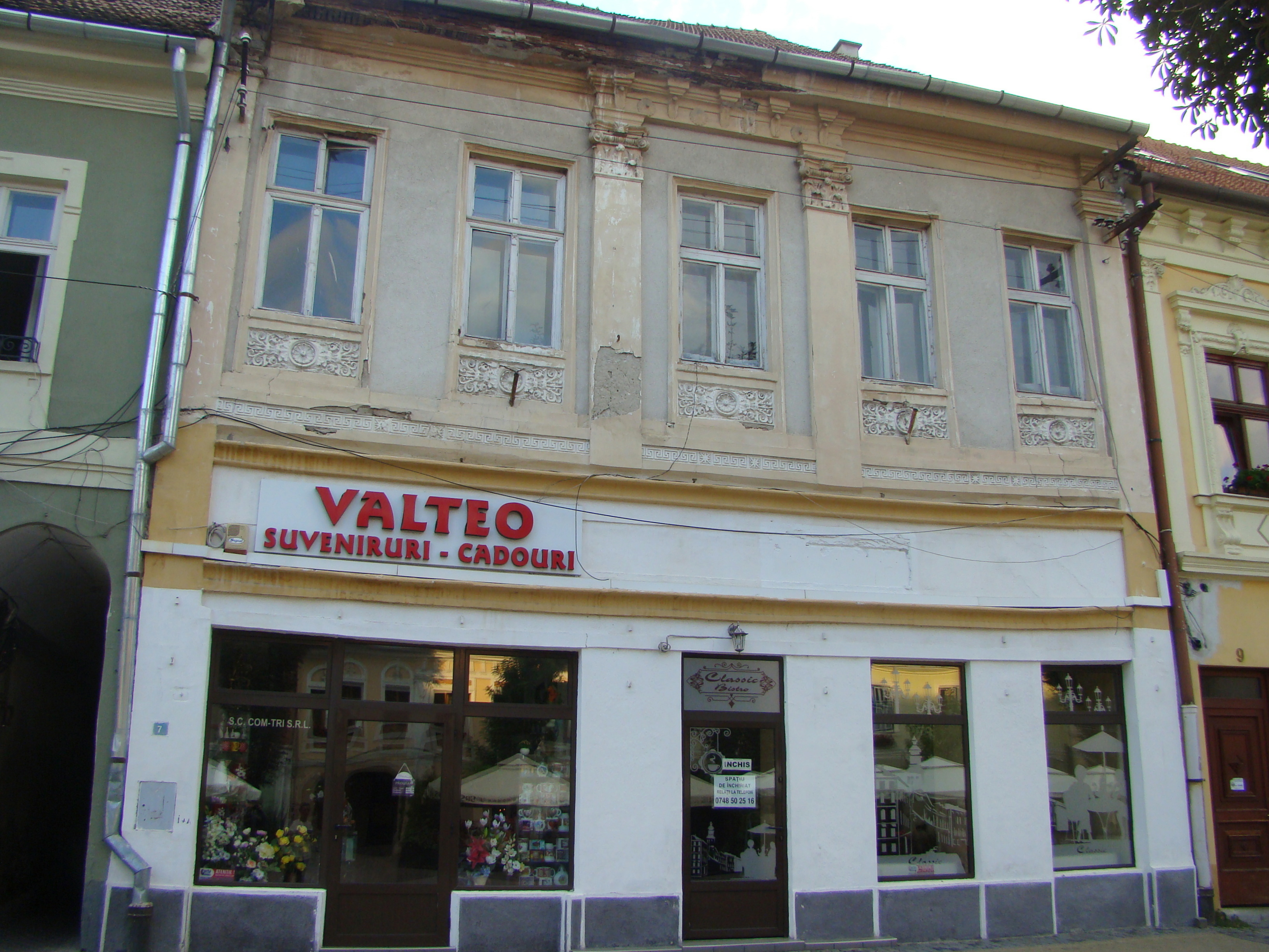 House, historic monument, in Bistrița, Liviu Rebreanu street 7